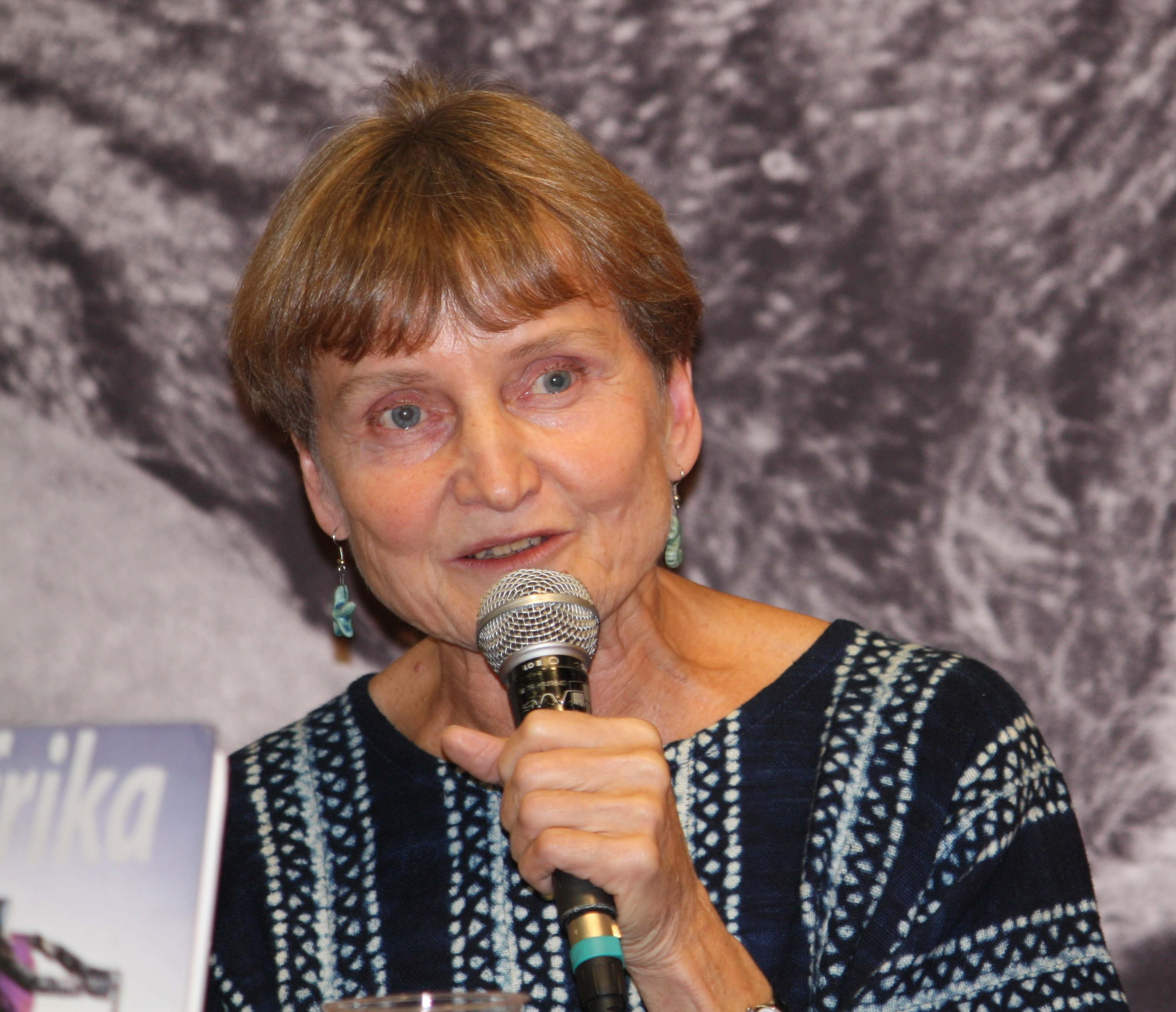 Non-fiction writer Carita Backström at the Helsinki Book Fair 2010.